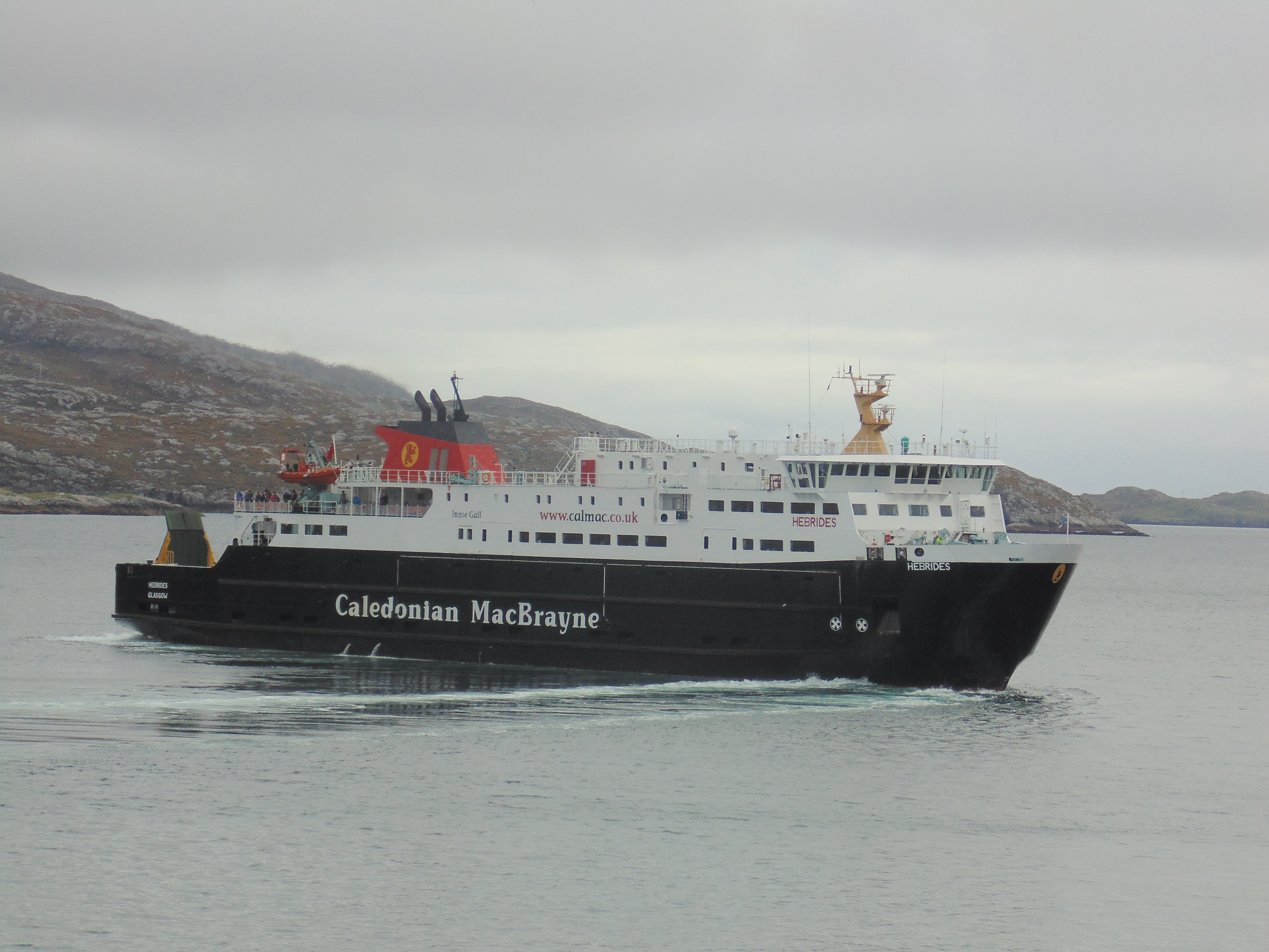 The Caledonian MacBrayne car ferry MV Hebrides leaving Tarbert, Harris.